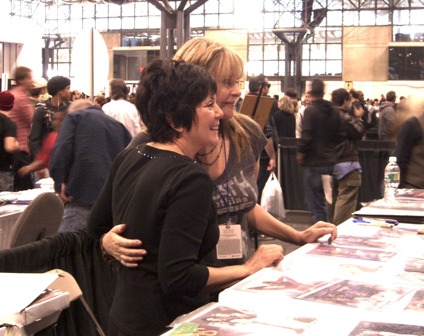 Actresses Joyce DeWitt and Priscilla Barnes at the New York Comic Convention in Manhattan, October 10, 2010. Photo by Luigi Novi. This photo may be used, modified and published for any purpose, only if the photographer is visibly credited in each instance in which it is used. (See licensing information below.) Publication of this photo without proper attribution constitute copyright infringement. For more information on my photos, you can contact me here.